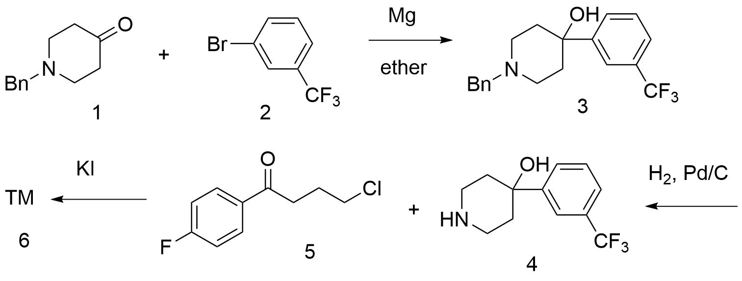 Chemical scheme for the synthesis of trifluperidol